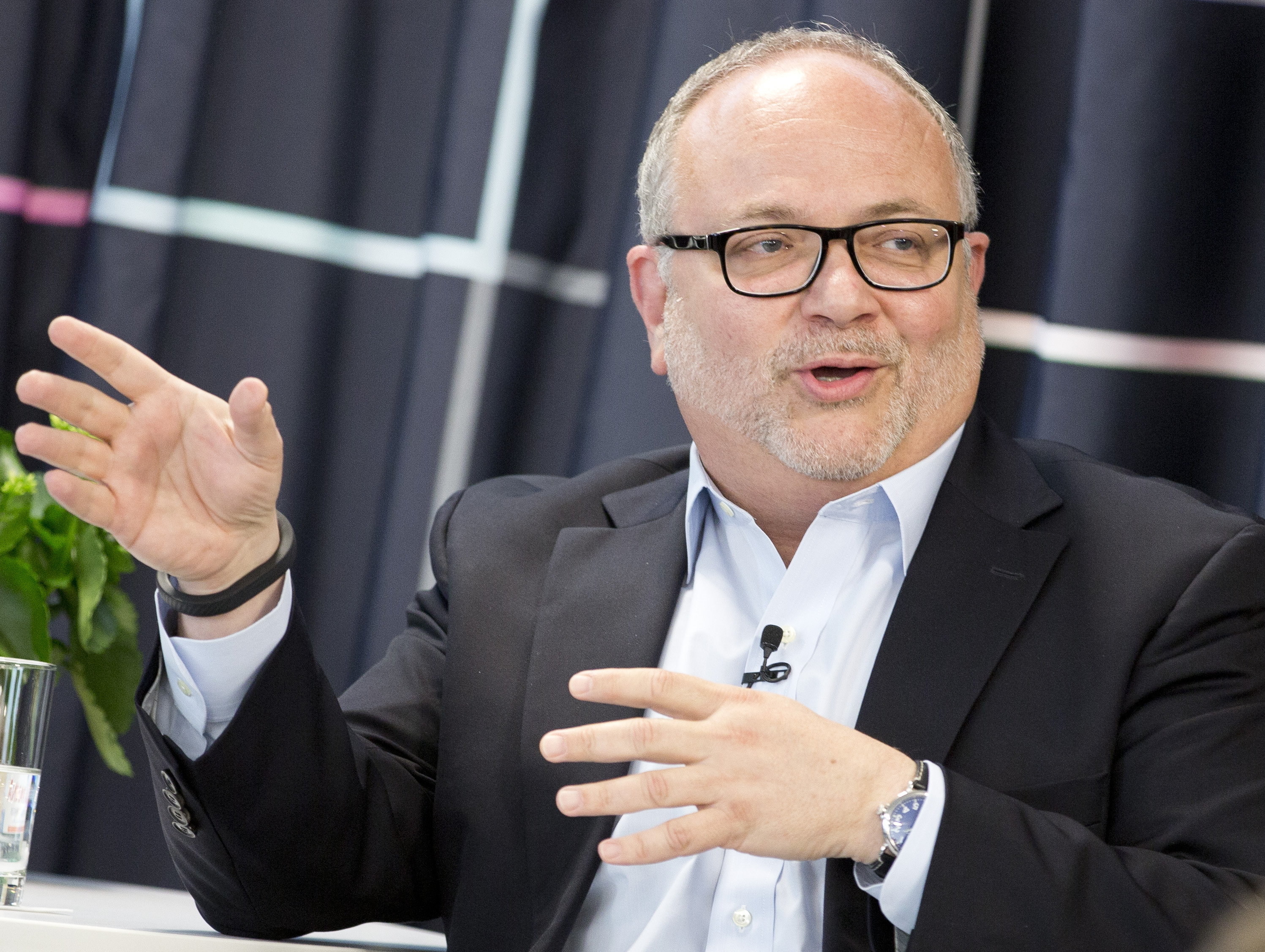 The Walt Disney Company's CFO Jay Rasulo leading a business discussion in the Spring of 2014.